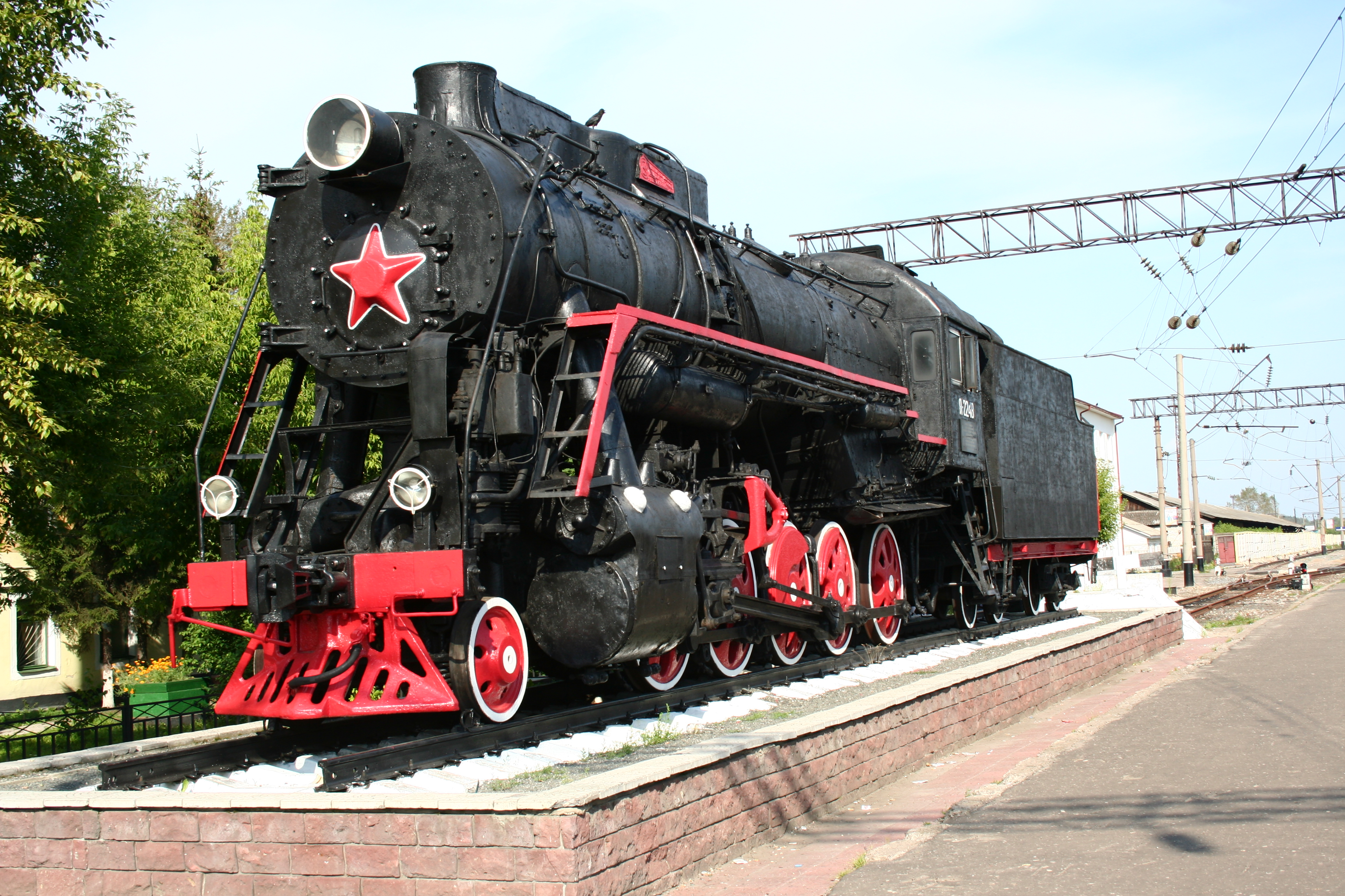 Steam locomitive type L in Murom